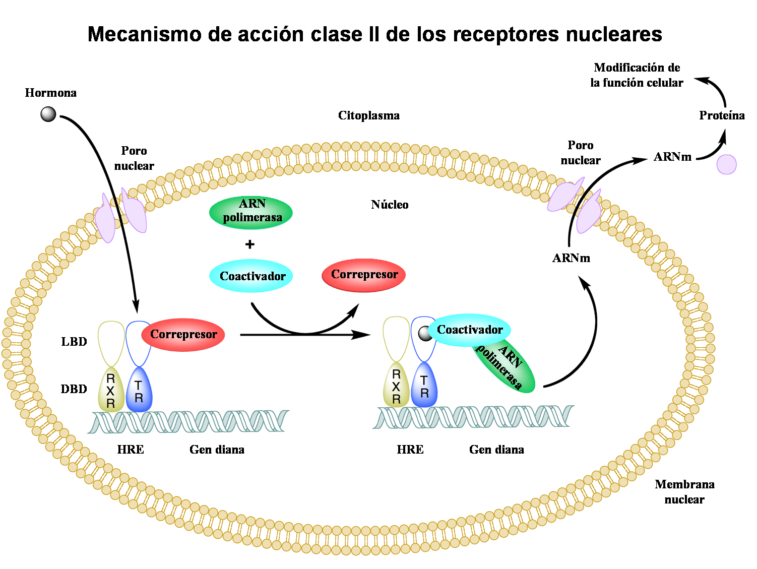 Created myself using CambridgeSoft BioDraw. Mechanism nuclear receptor action. This figure depicts the mechanism of a class II nuclear receptor (NR) which, regardless of ligand binding status is located in the nucleus bound to DNA. For the purpose of illustration, the nuclear receptor shown here is the thyroid hormone receptor (TR) heterodimerized to the RXR. In the absence of ligand, the TR is bound to corepressor protein. Ligand binding to TR causes a dissociation of corepressor and recruitment of coactivator protein which in turn recruit additional proteins such as RNA polymerase that are responsible for transcription of downstream DNA into RNA and eventually protein which results in a change in cell function.